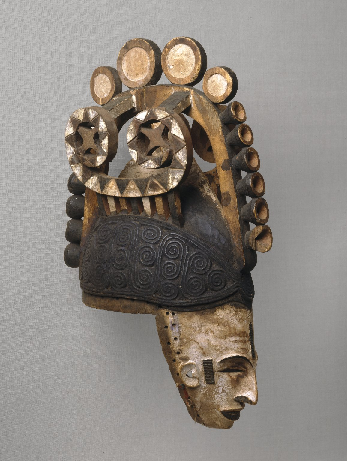 Helmet mask with long narrow face, painted white; narrow protruding sharp nose; slit eyes; open mouth showing teeth; small ears. Arching eyebrows, sides of nose, lips, and rectangular ridged decorarions in center of forehead and in front of each ear are all painted brown. Linear and spiral carving on helmet portion of headdress, also painted brown. Above this is an elaborate openwork construction in brown and white, with a tall central ridge surmounted by discs and cup-like projections, flanked by a double-volute and fretwork form on eac side. The double-volute forms are decorated with incised triangles. CONDITION: A series of small holes borders the face and helmet portion, some remnants of string are threaded through them. Sticky black pieces of tape inside the mask, in back of eyes, mouth, especially at edges. Some areas of possible insect damage. Marks of water damage on forehead.